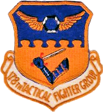 178th Tactical Fighter Group - Emblem